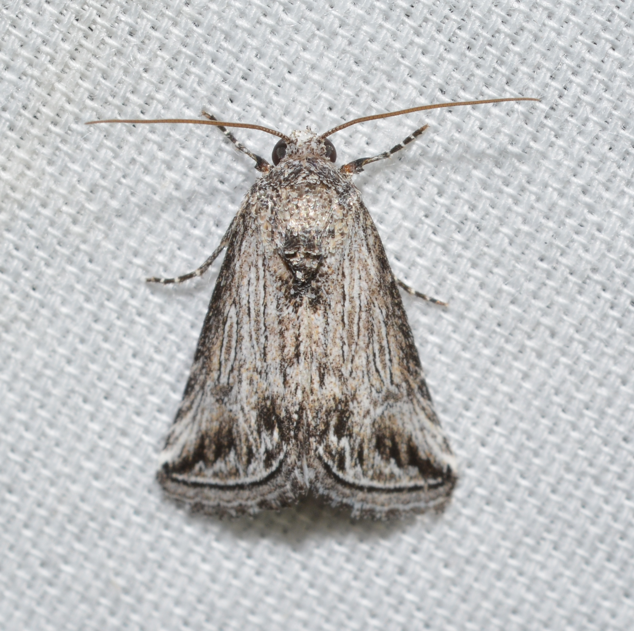 A little bit of mothing in Tucson, Arizona 4/3/17 - 4/5/17 ID most likely thanks to André Poremski